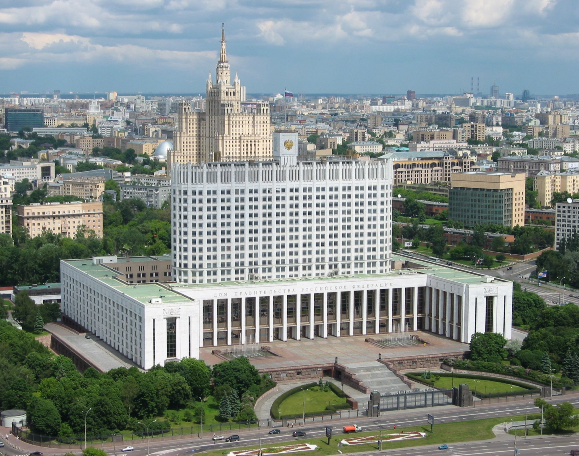 White House, Moscow